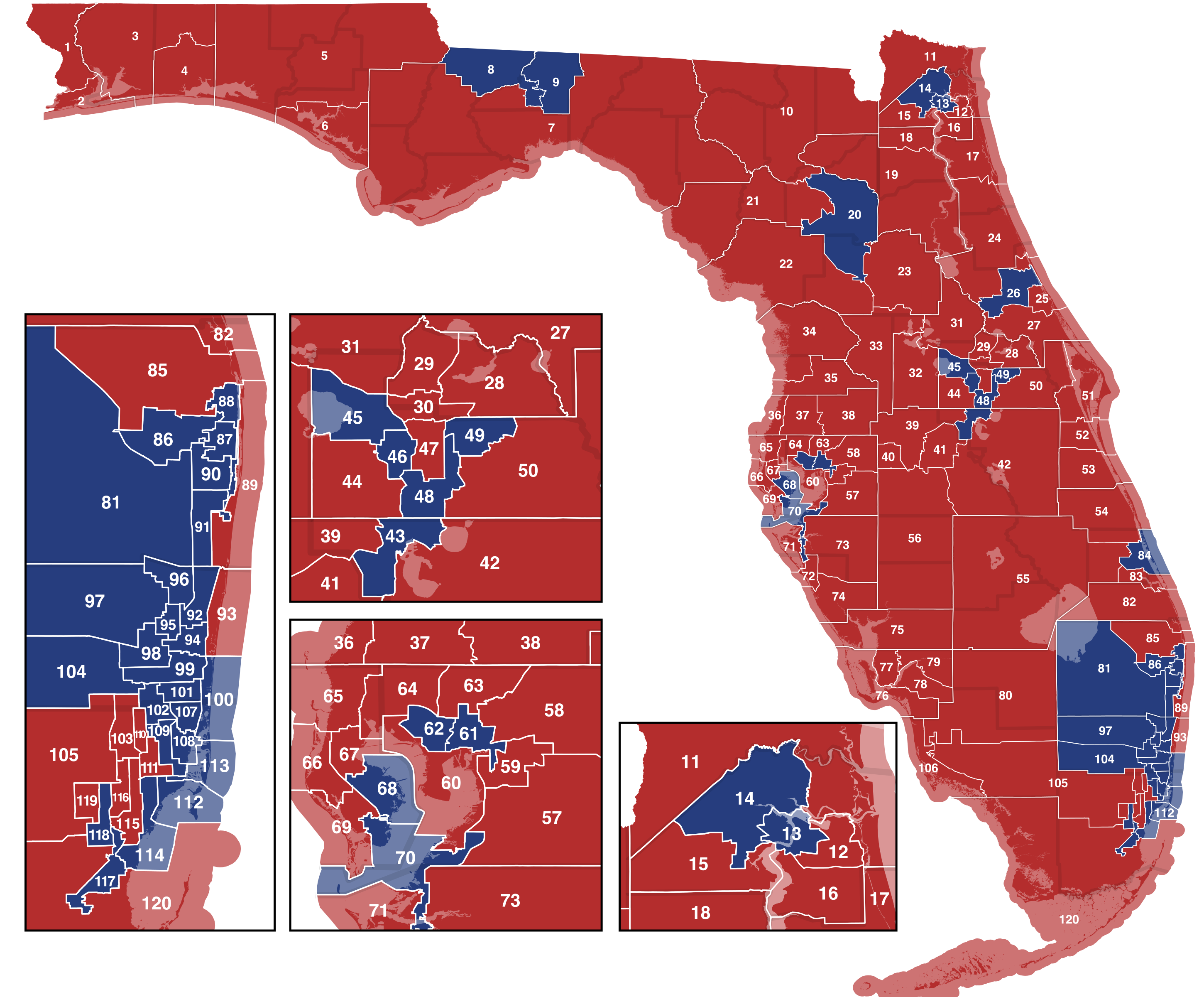 2016 district map of the Florida House of Representatives. Democratic Republican Vacant